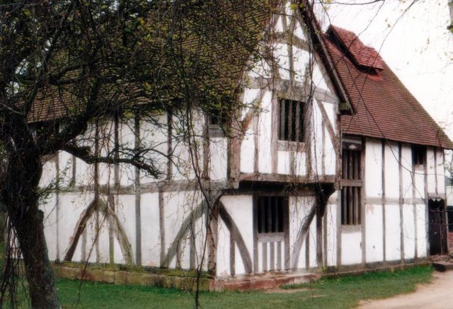 Merchant's house from Bromsgrove, Worcs (15th C). Photographed at its new home at Avoncroft Museum.